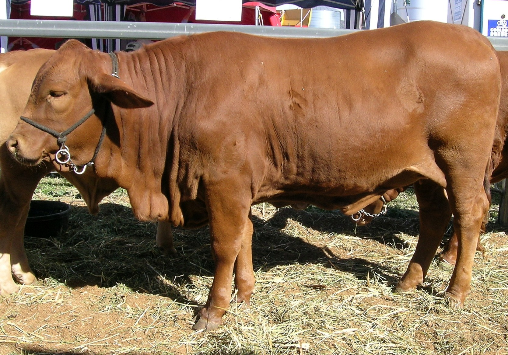 Droughtmaster heifers at AgQuip, Gunnedah, NSW